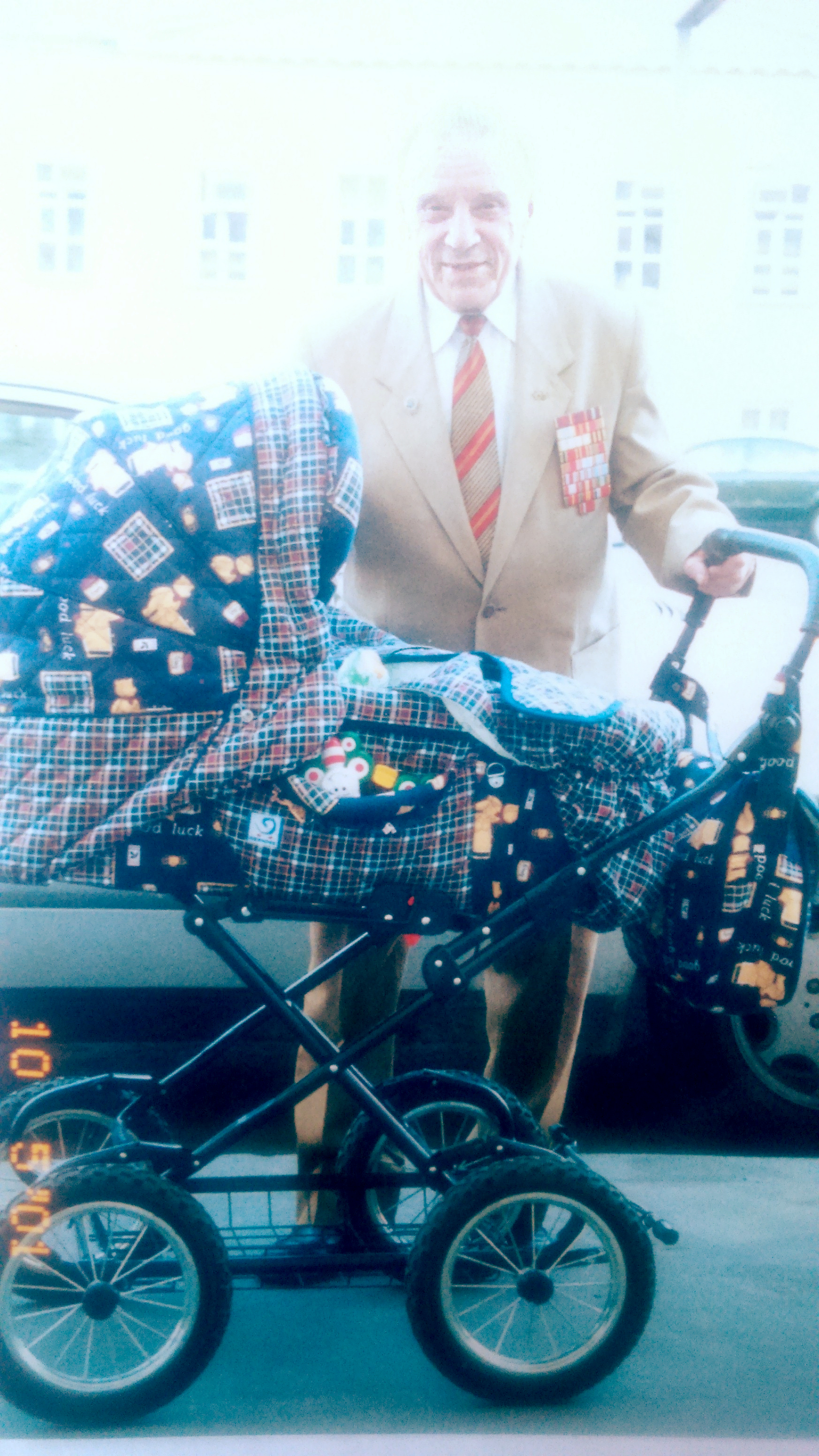 Evgeny Lopatin as Great Grandfather 2001 at the age of 84